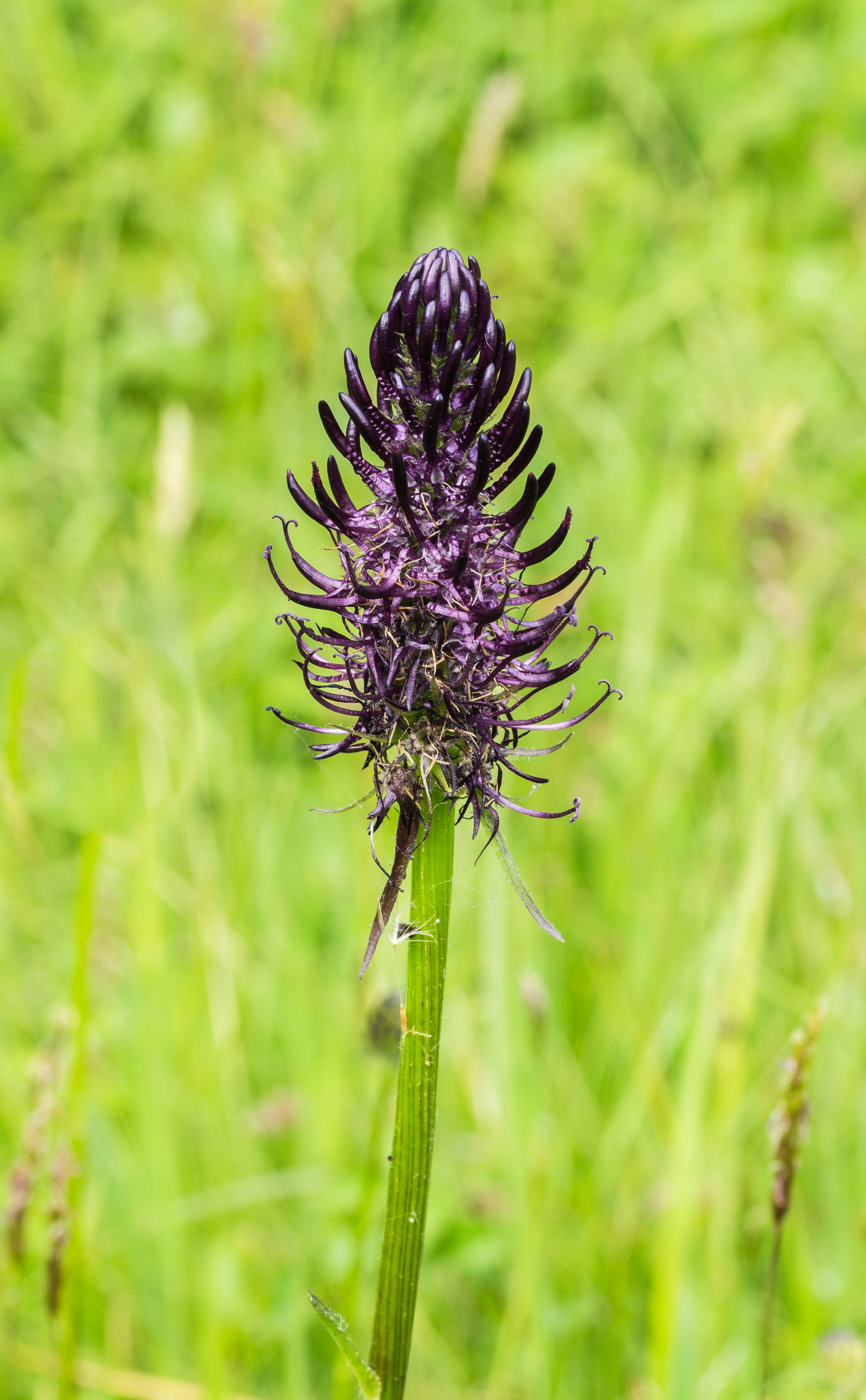 Hortus Haren. Flower of the Black Rampion (Phyteuma nigrum).